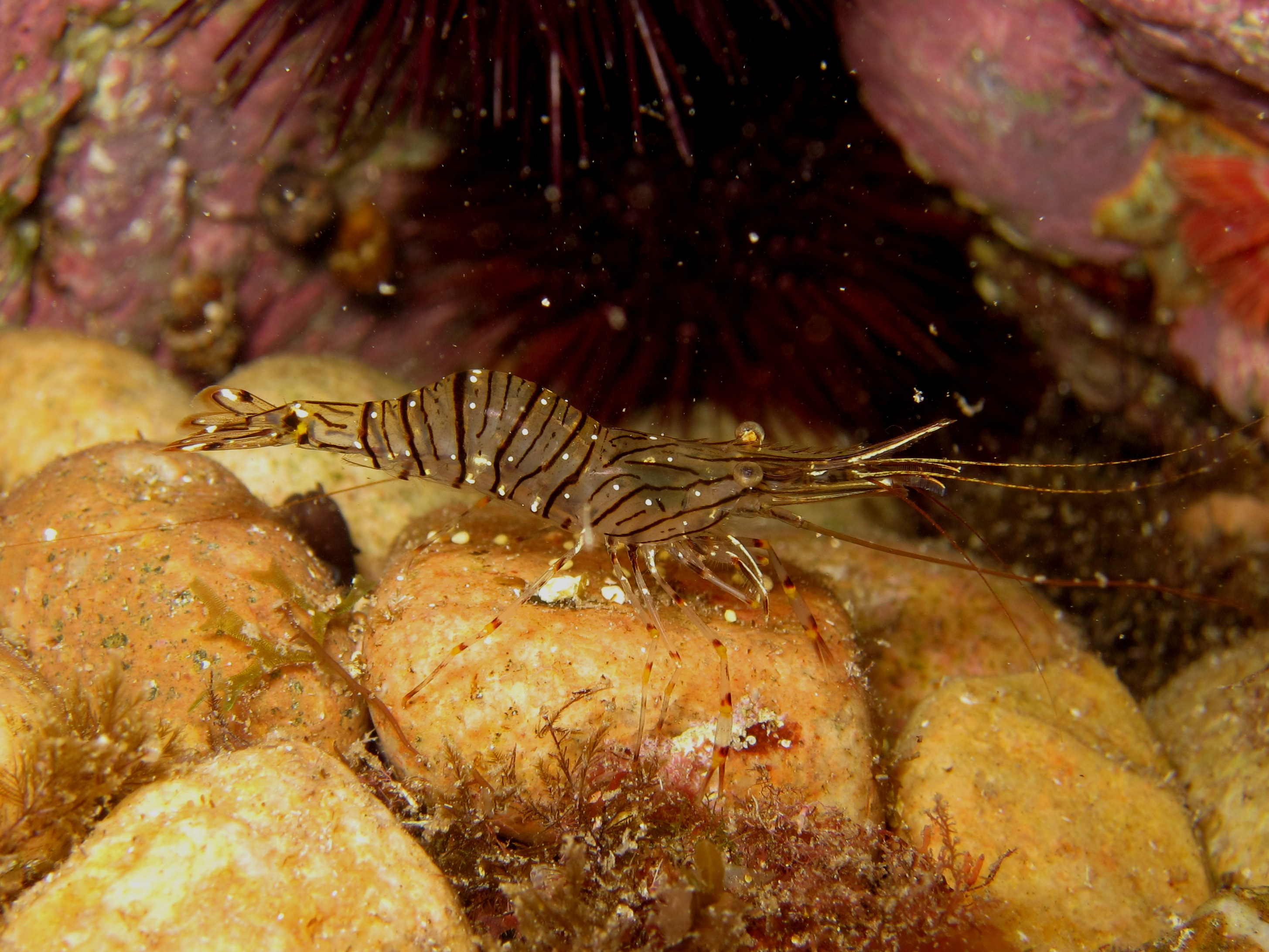 Palaemon elegans in Catalonia